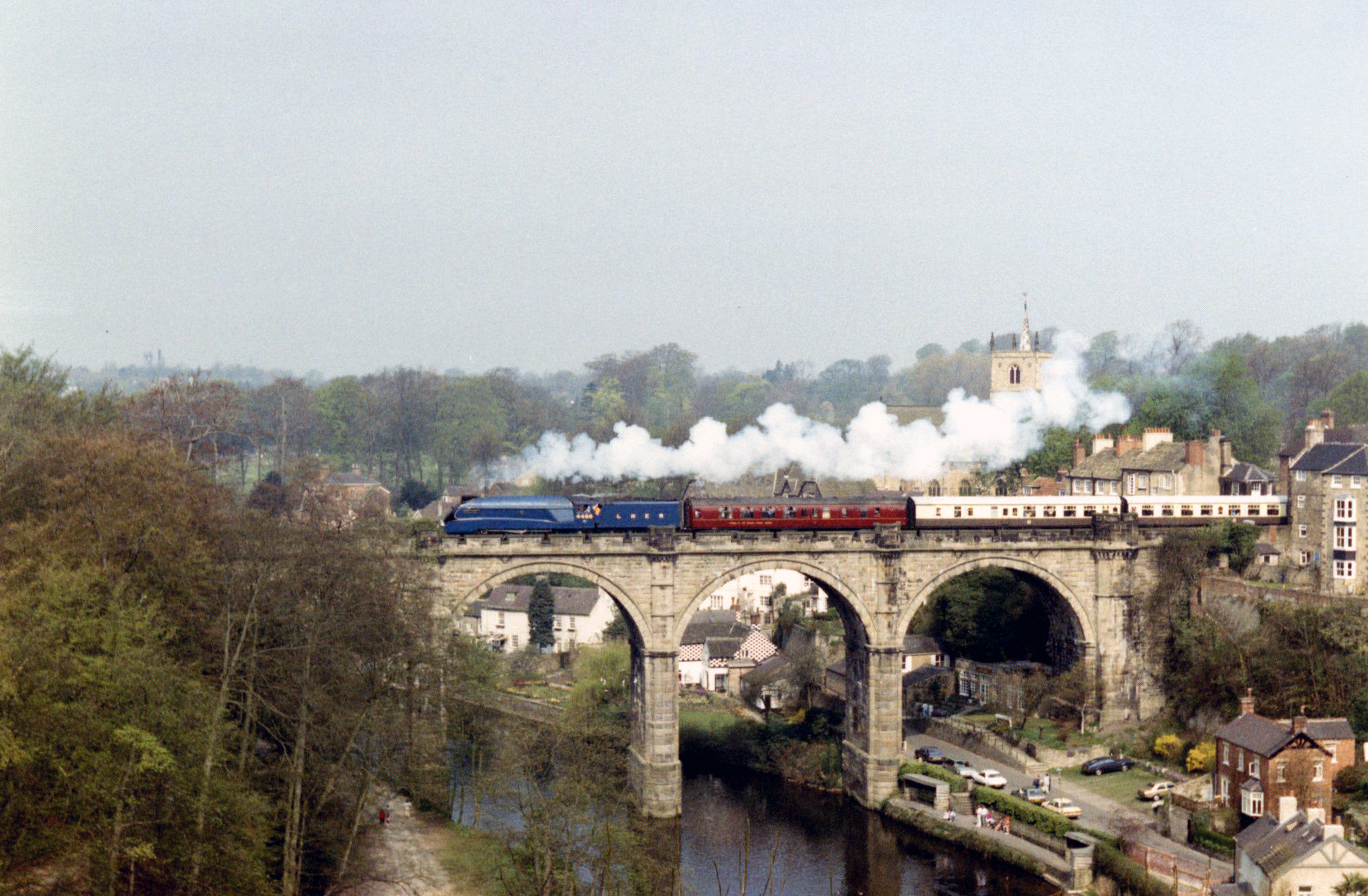 Mallard on Knaresborough viaduct, Data from Geograph: Description: I'm not sure of the exact location the photo was taken except it was on the footpath under the castle. 4468 Mallard is a London and North Eastern Railway Class A4 4-6-2 Pacific steam locomotive built at Doncaster in 1938.... more ICBM: 54.008380013598, -1.4715382013592 Location: (about 0 km from) near to Knaresborough, North Yorkshire, Great Britain.